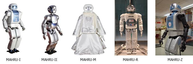 KIST humanoid robot Mahru